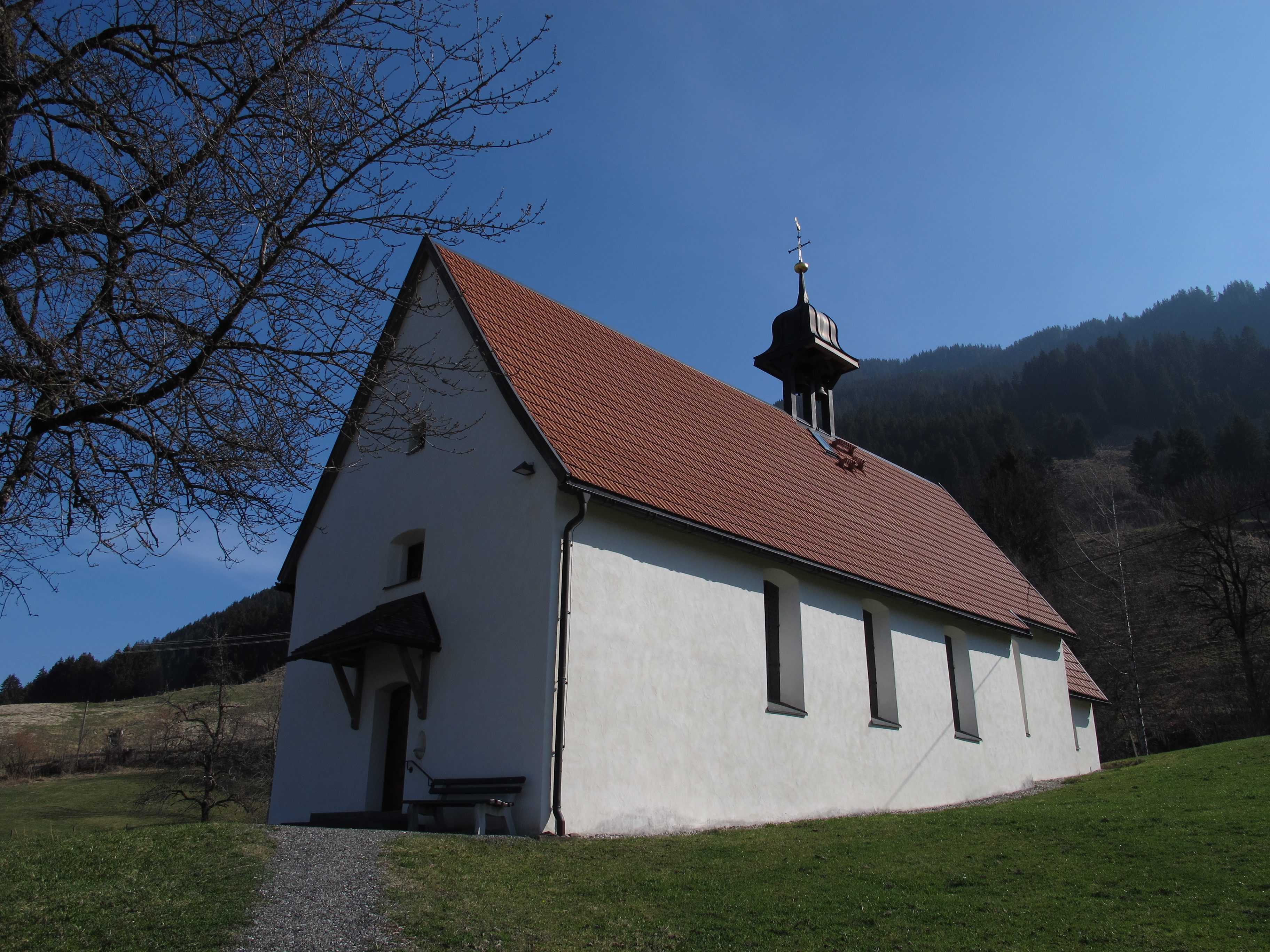 Reichenbach/Oberstdorf: Chapel St. Jakobus